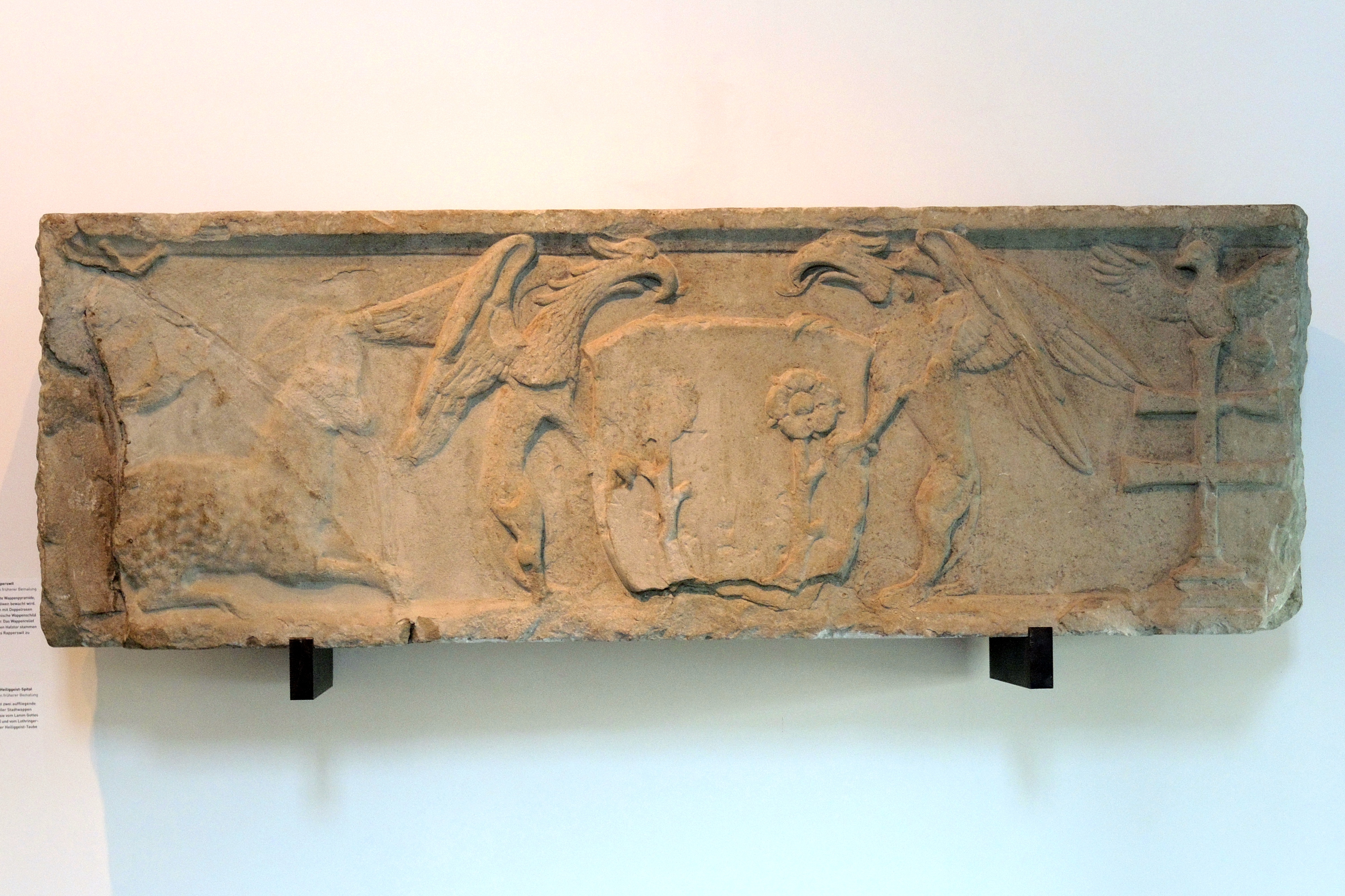 Collection of the Stadtmuseum) in Rapperswil (Switzerland)